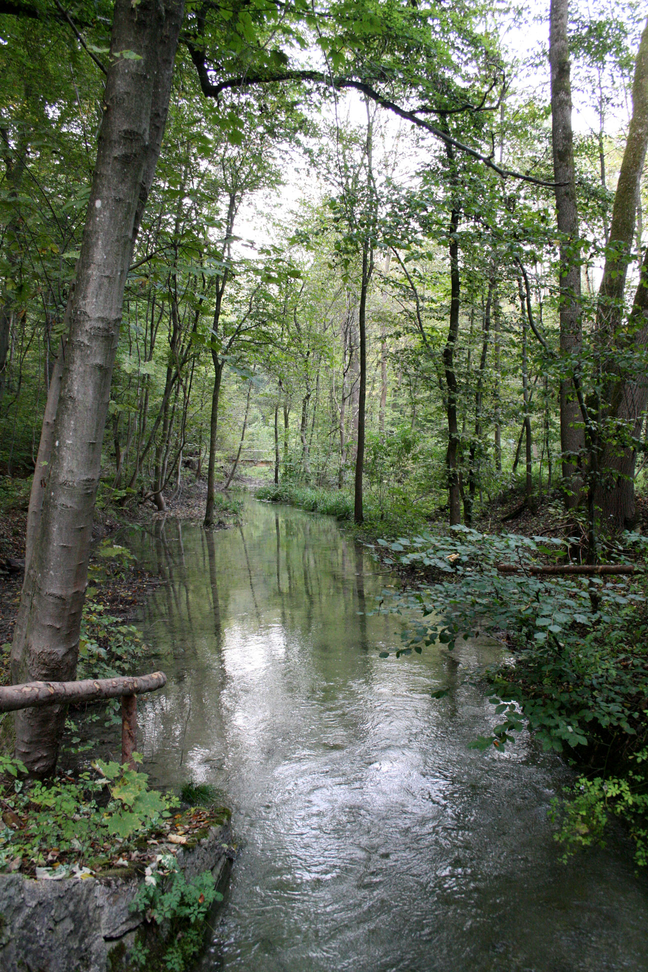 Maria-Einsiedel-Bach (former Maria-Einsiedel-Mühlbach) in München, a branch of the Floßkanal